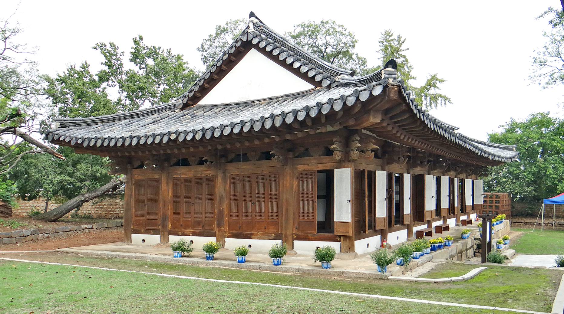 Gimje Dongheon (town magistrate's office) is a traditional Joseon Era Korean style building built in 1667 used as the town office from the period of imperialist Japan until the early 1960's. Noteworthy as the only Dongheon currently surviving with Naedongheon (magistrate's quarters), this building had been left abandoned for a long period, but now has been restored several times in recent years. Historic Relic #482. Provincial tangible cultural asset #60.